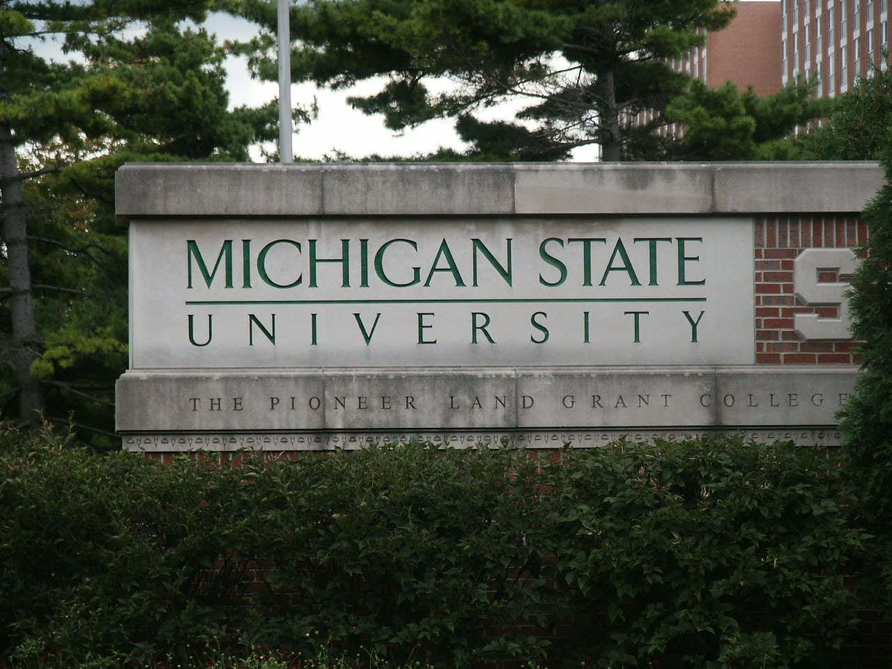 Michigan State University sign.